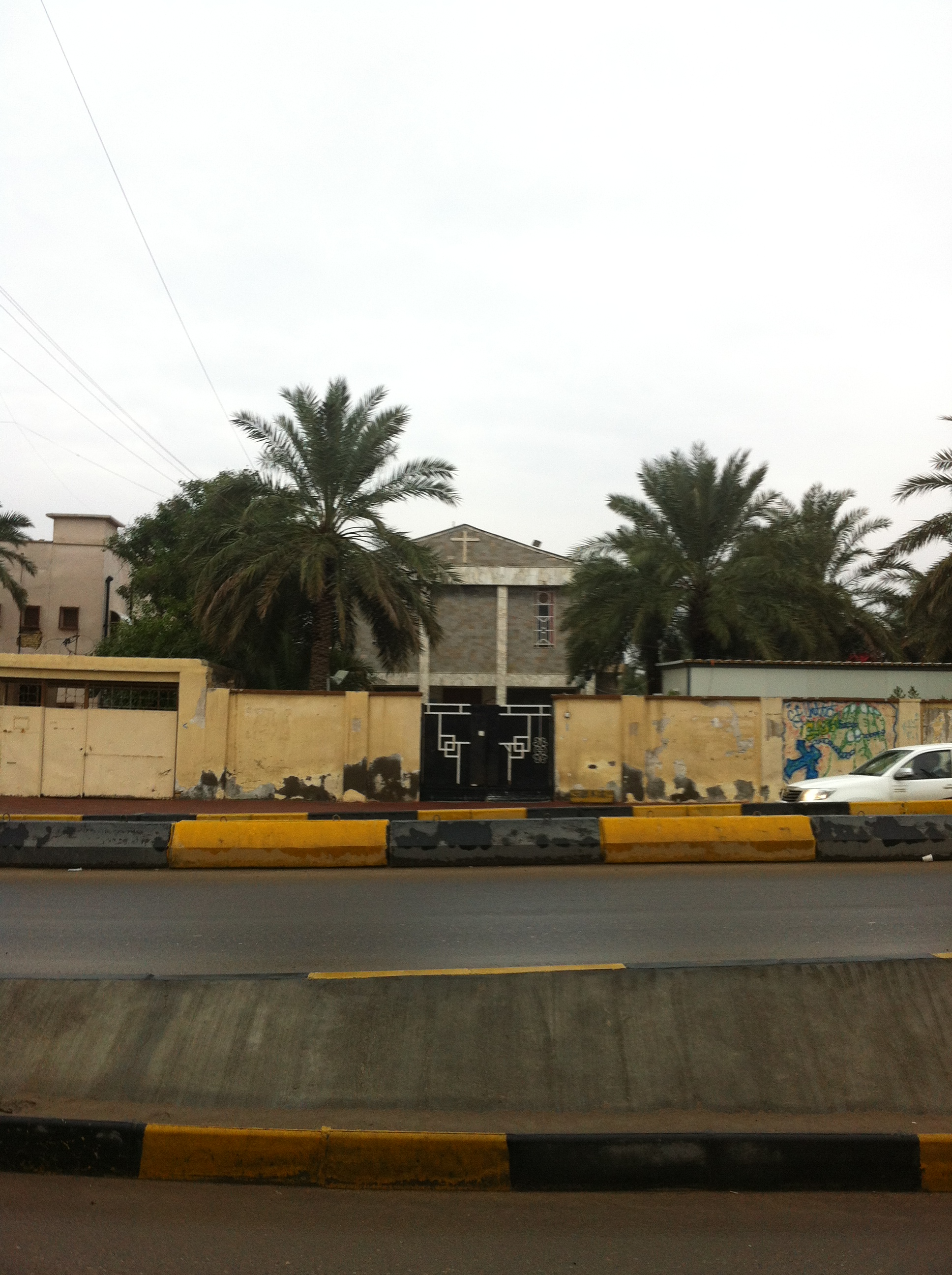 A church (Chaldean Catholic i think) in Basra city, Iraq